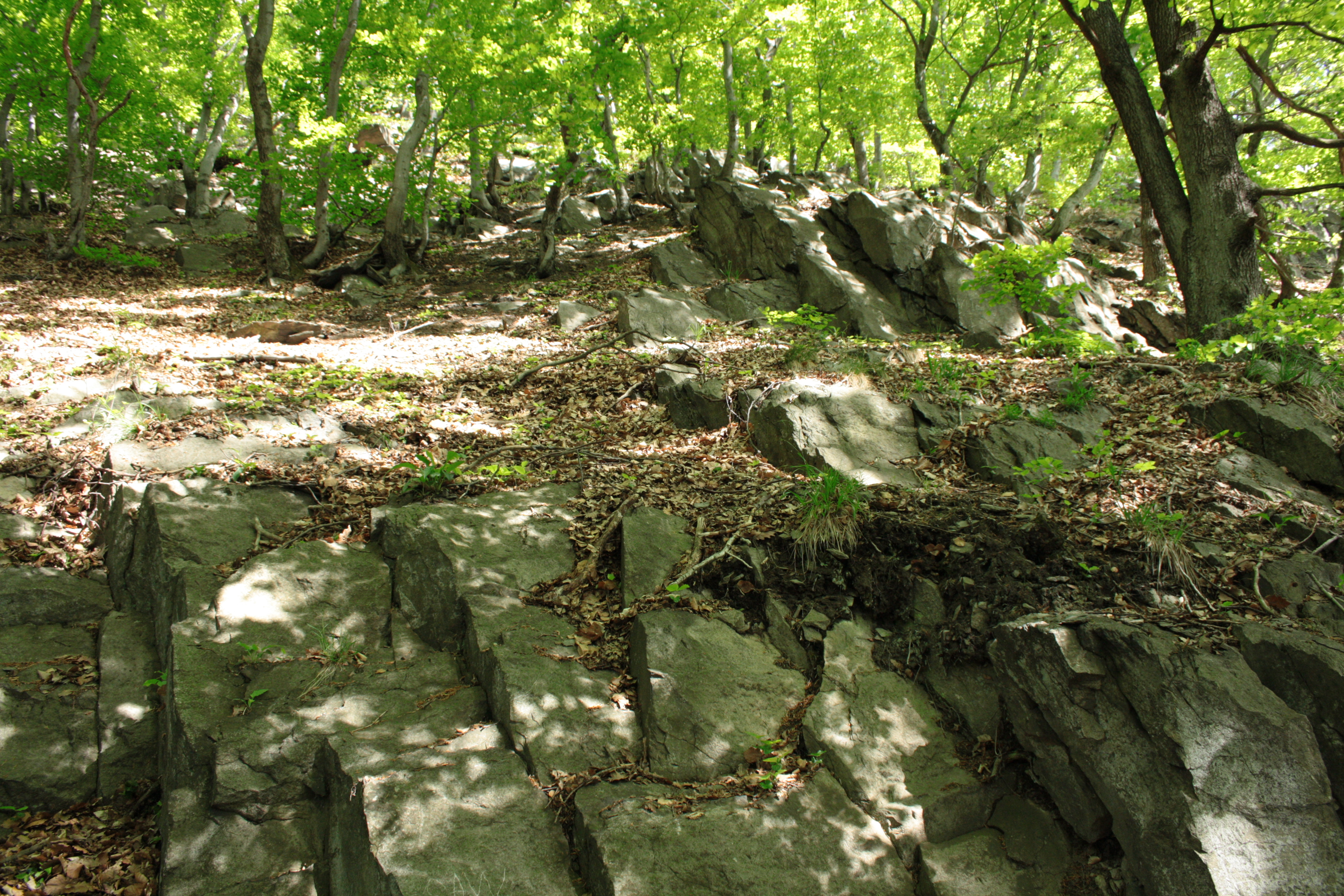 National nature reserve Velký a Malý Bezděz, Česká Lípa District, Liberec Region, Czech Republic This photograph was taken with a DSLR from WMCZ's Camera grant. Project: Fotíme Česko